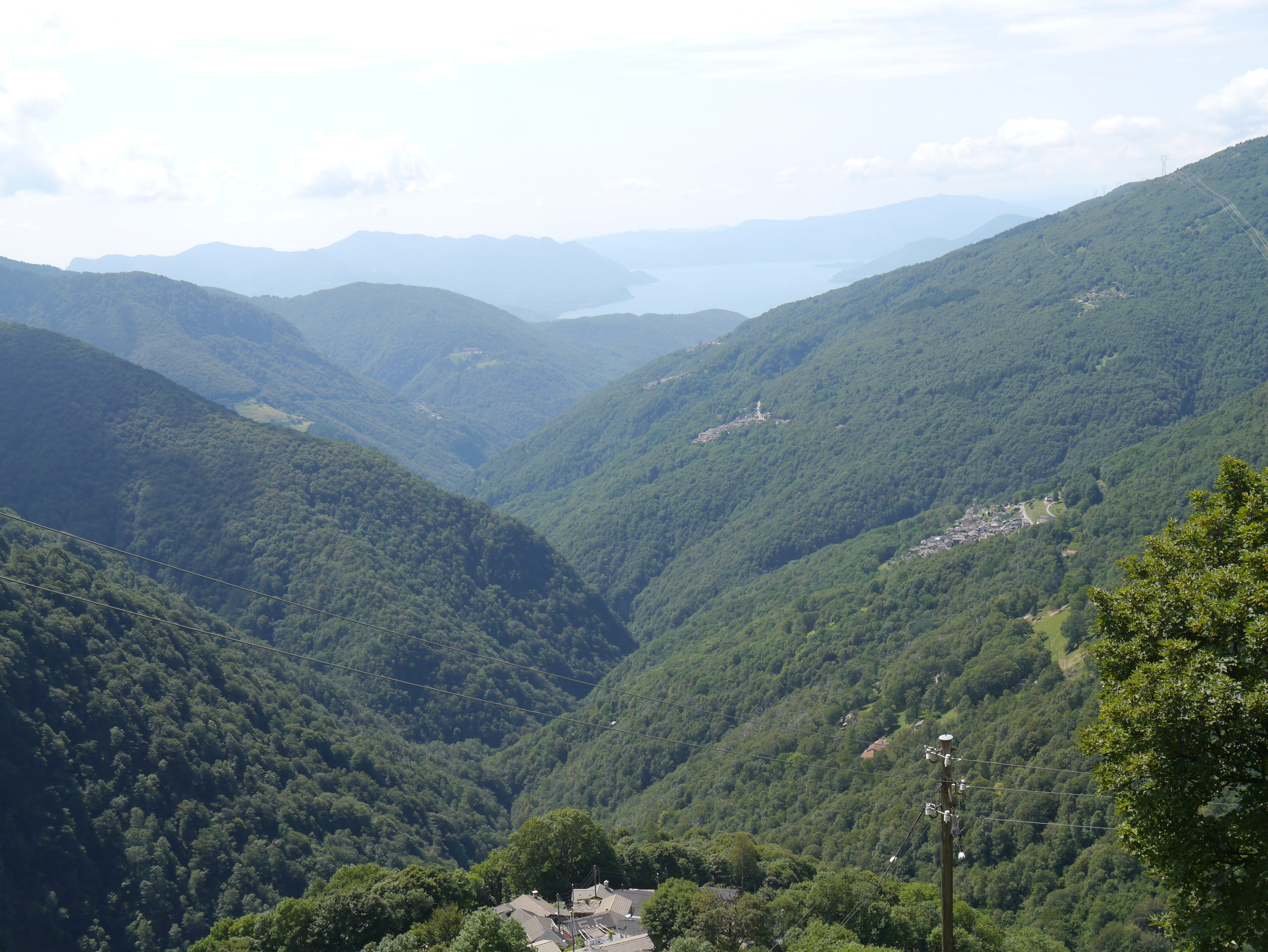 The Val Giona from Alpe di Neggia, Tessin, Switzerland and Valle Veddasca Region of Lombardy, Italy